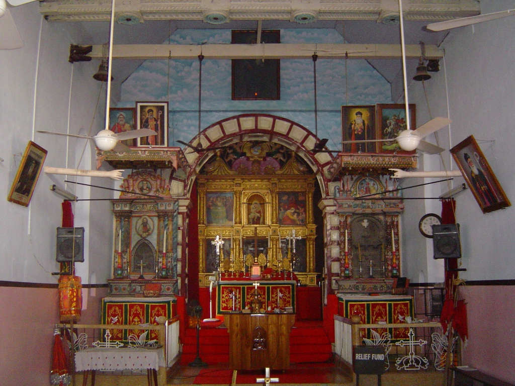 Valia Palli Church inside in Kottayam, Kerala, India